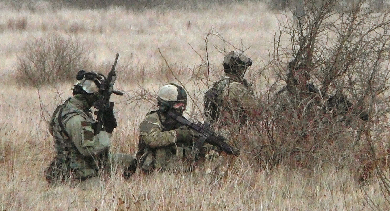 POLAND — U.S. Navy SEALs assigned to Special Operations Command Europe and Polish GROM soldiers conduct a security halt during bilateral exercises near Gdansk, Poland in early February 2009. The training improved operational coordination, communication and cooperation between the two forces.